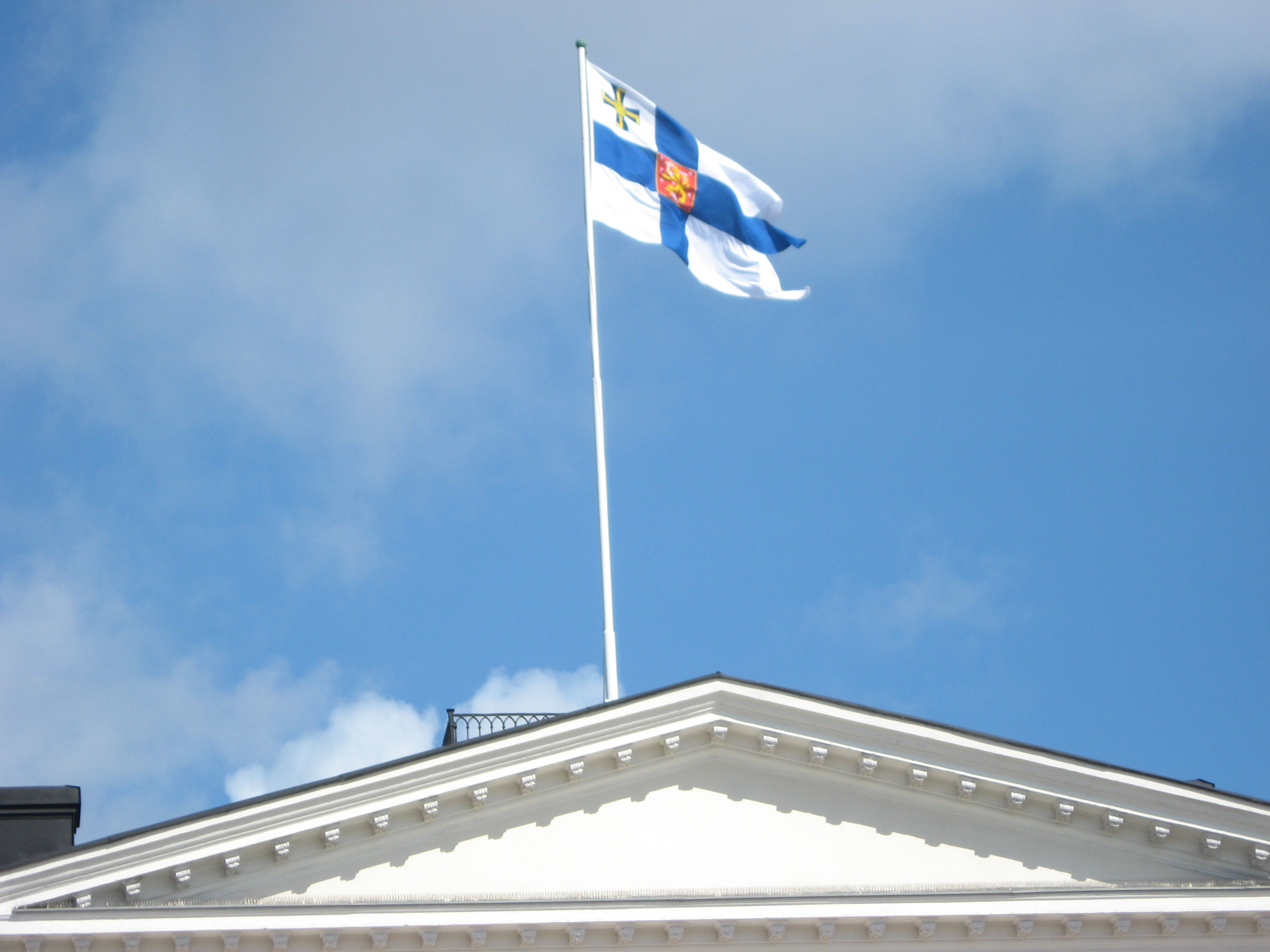 The Finnish presidential standard at the Presidential Palace, Helsinki.